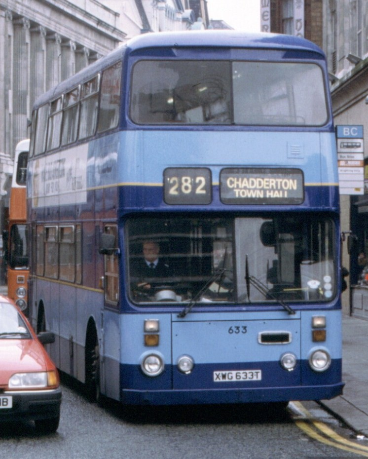 Roe bodied 1978 Atlantean XWG633T (cropped from source)